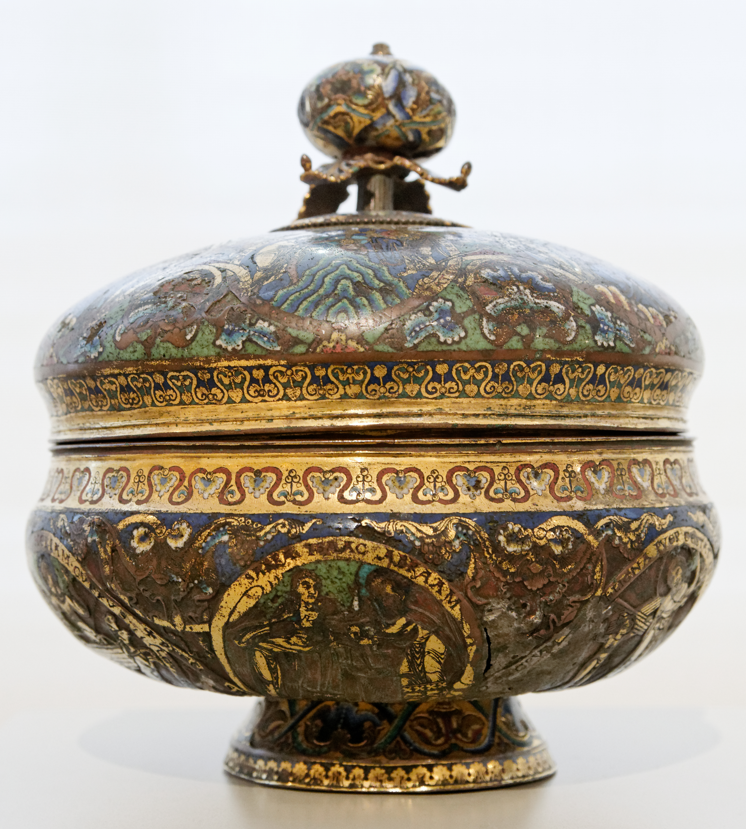 Ciborium with six scenes from the life of Christ on the cover and six Old Testament scenes on the footed bowl, probably made in Great-Britain.